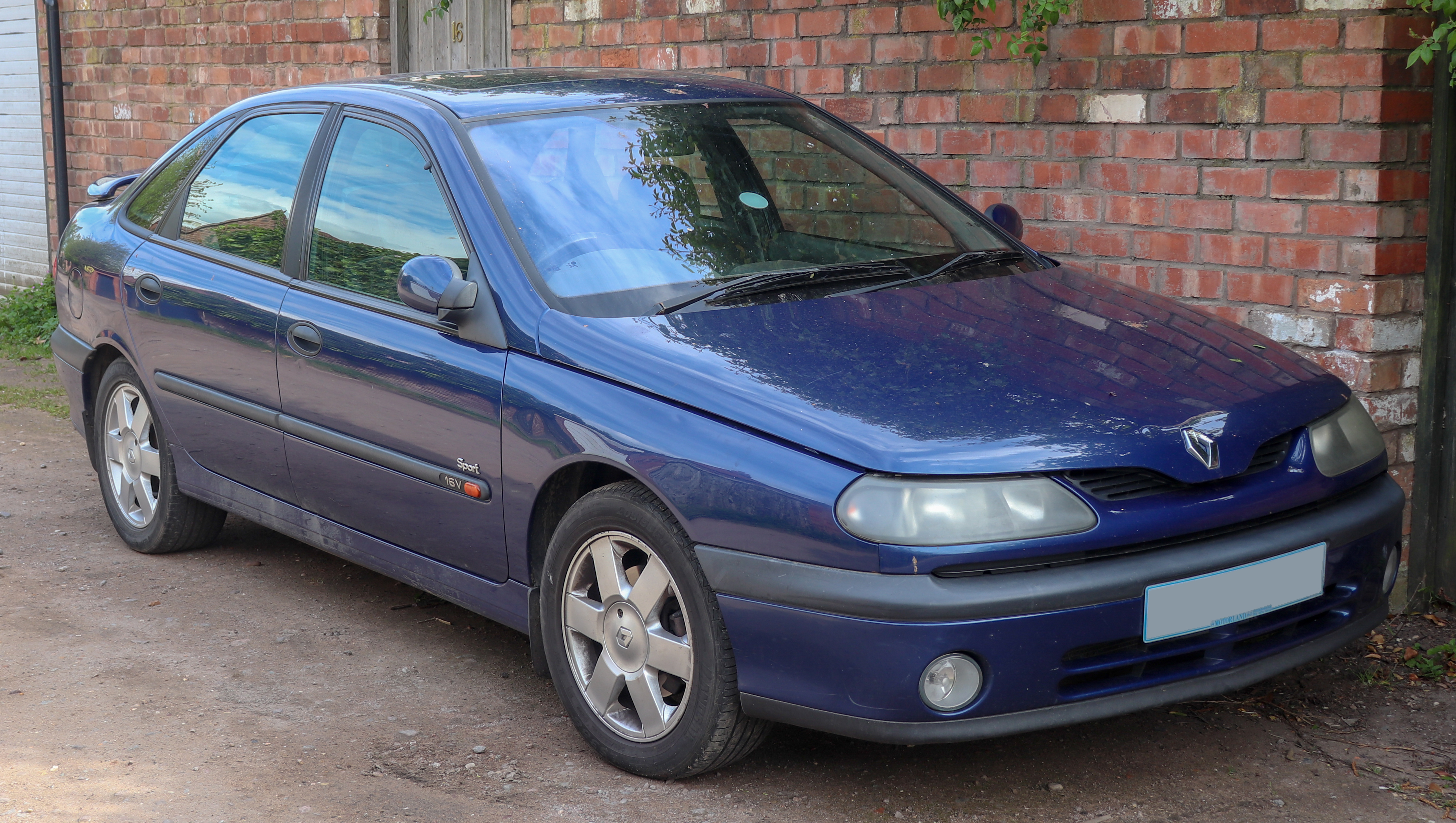 2000 Renault Laguna Sport 1.8 Front Taken in Leamington Spa